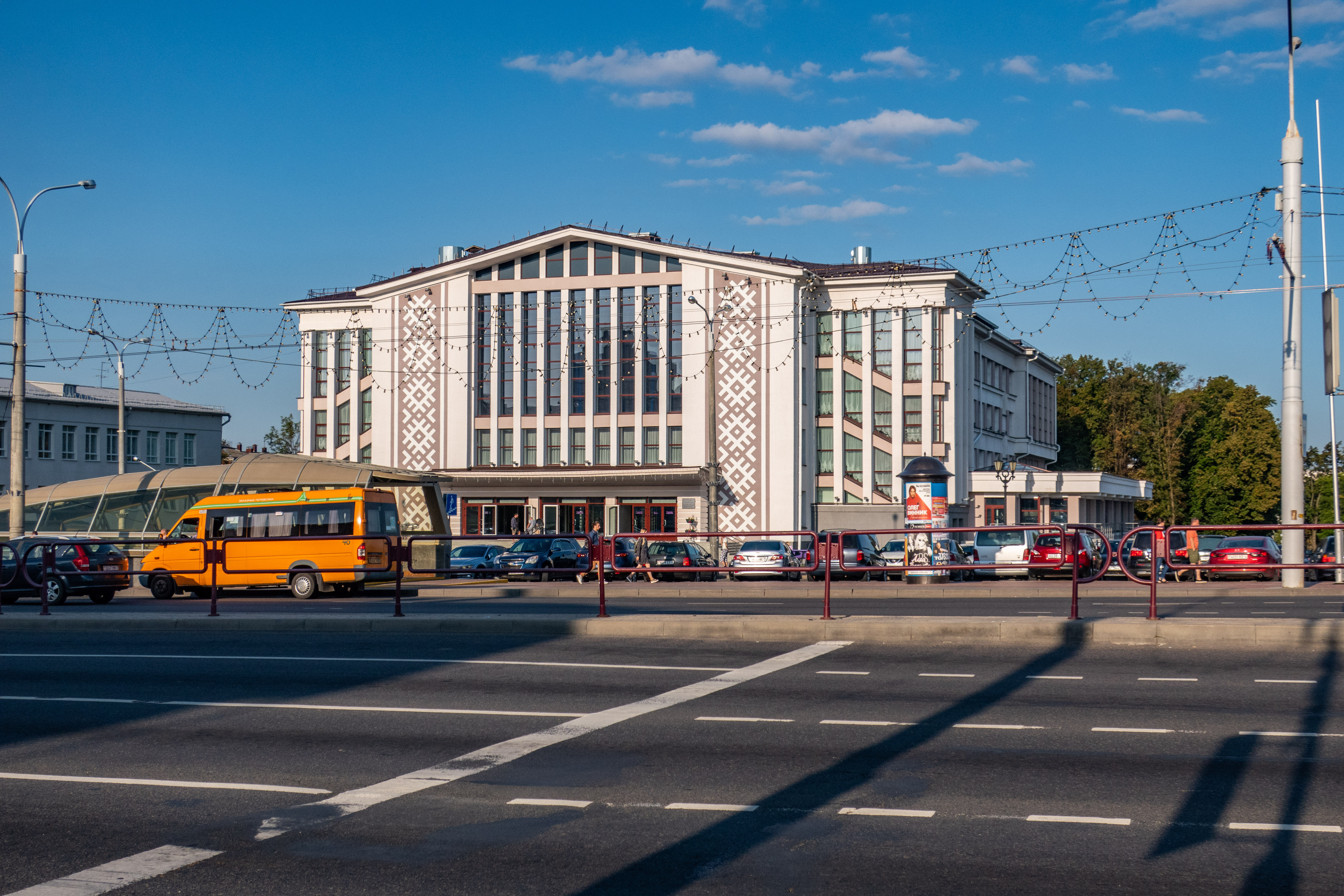 City palace of culture, former palace of culture of the worsted fabrics factory ("Kamvol'ny"). Majakoŭskaha street. Minsk, Belarus